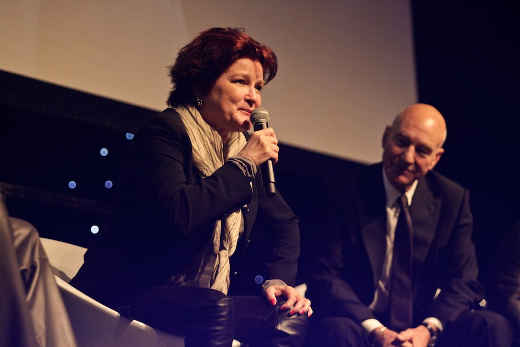 Destination Star Trek London: Kate Mulgrew, Patrick Stewart